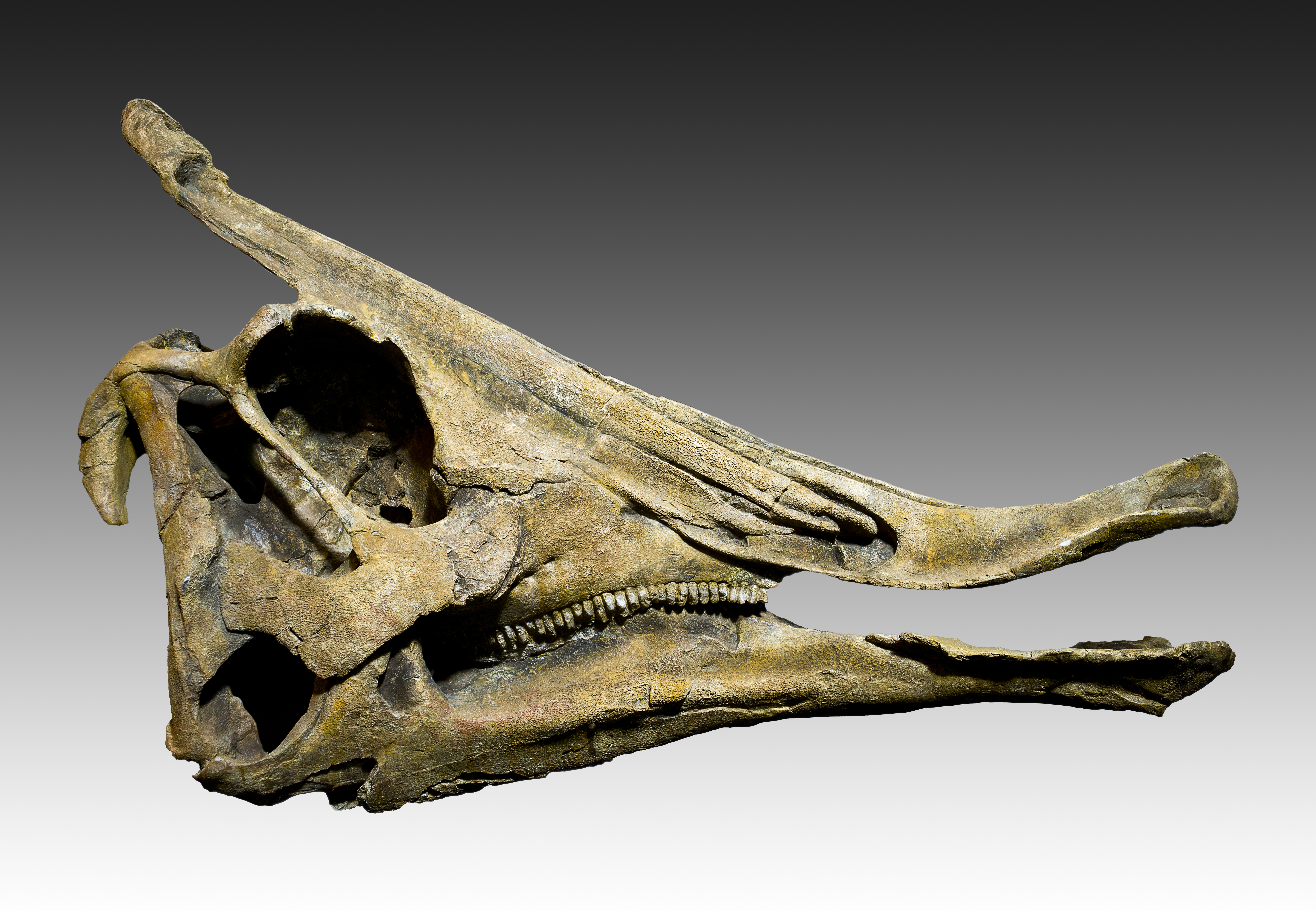 Cast of skull of Saurolophus osborni (Brown, 1912). Size 1 m.